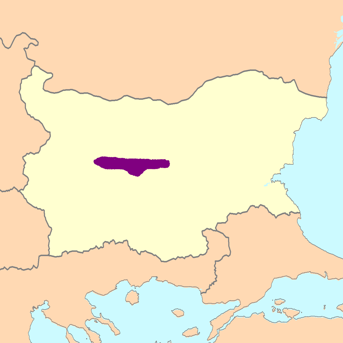 Duben Sheep area of distribution